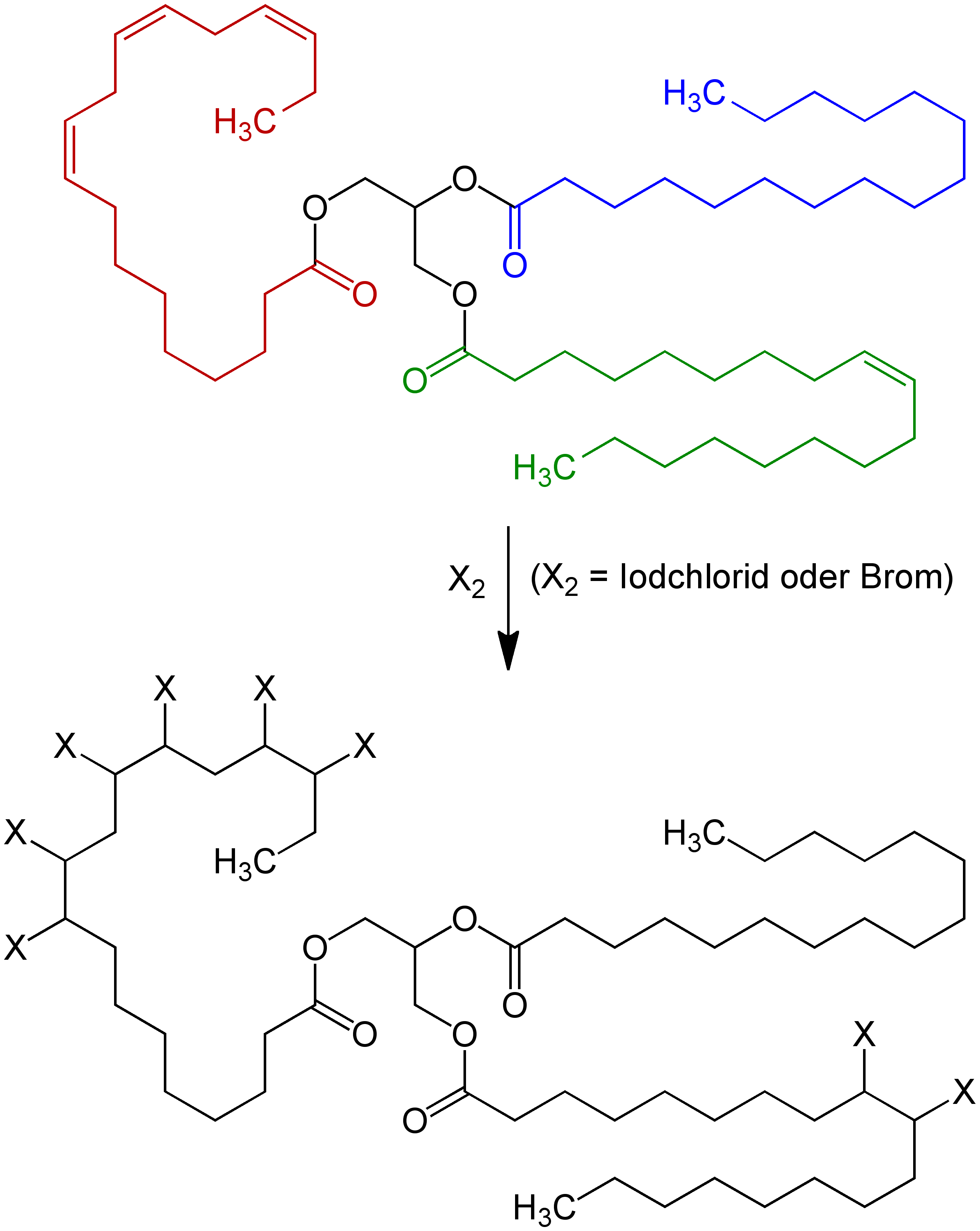 Addition reactions at C=C double bonds